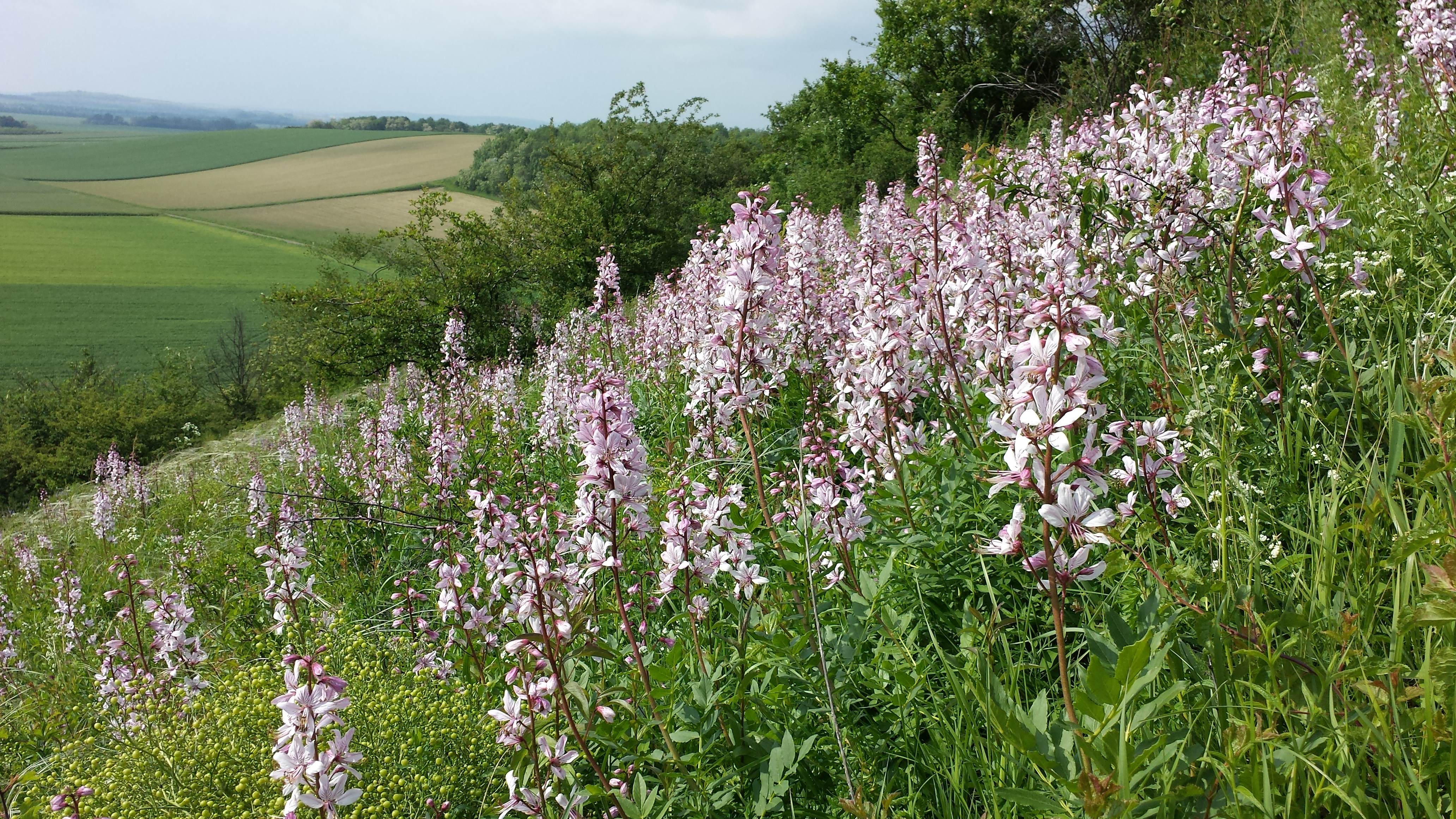 Habitus Taxon: Dictamnus albus (sensu Fischer et al. EfÖLS 2008 ISBN 978-3-85474-187-9) Location: nature reserve Zeiserlberg near Ottenthal, district Mistelbach, Lower Austria - ca. 230 m a.s.l. Habitat: dry grassland